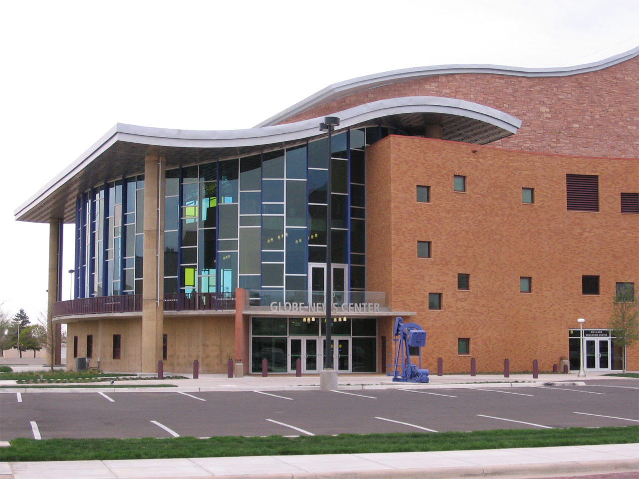 The Globe-News Center in Amarillo, Texas, USA. Globe-News Center of the Performing Arts building located next to the city's downtown library. Photo taken on April 14, 2006 by the uploader.